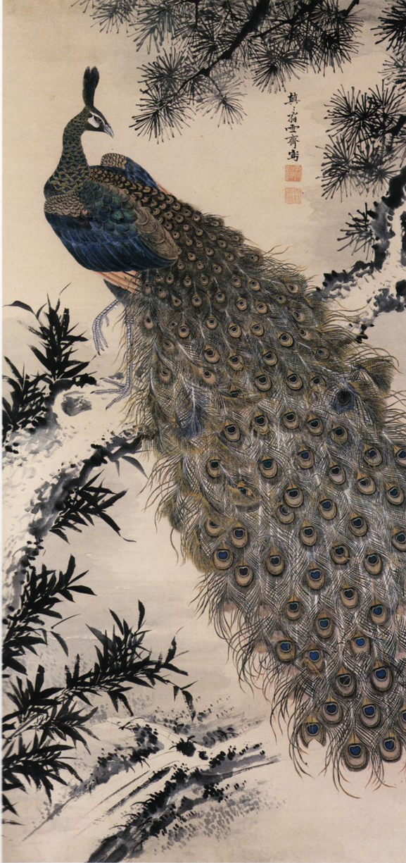 Painting of peacock, hanging scroll, ink and colors on silk